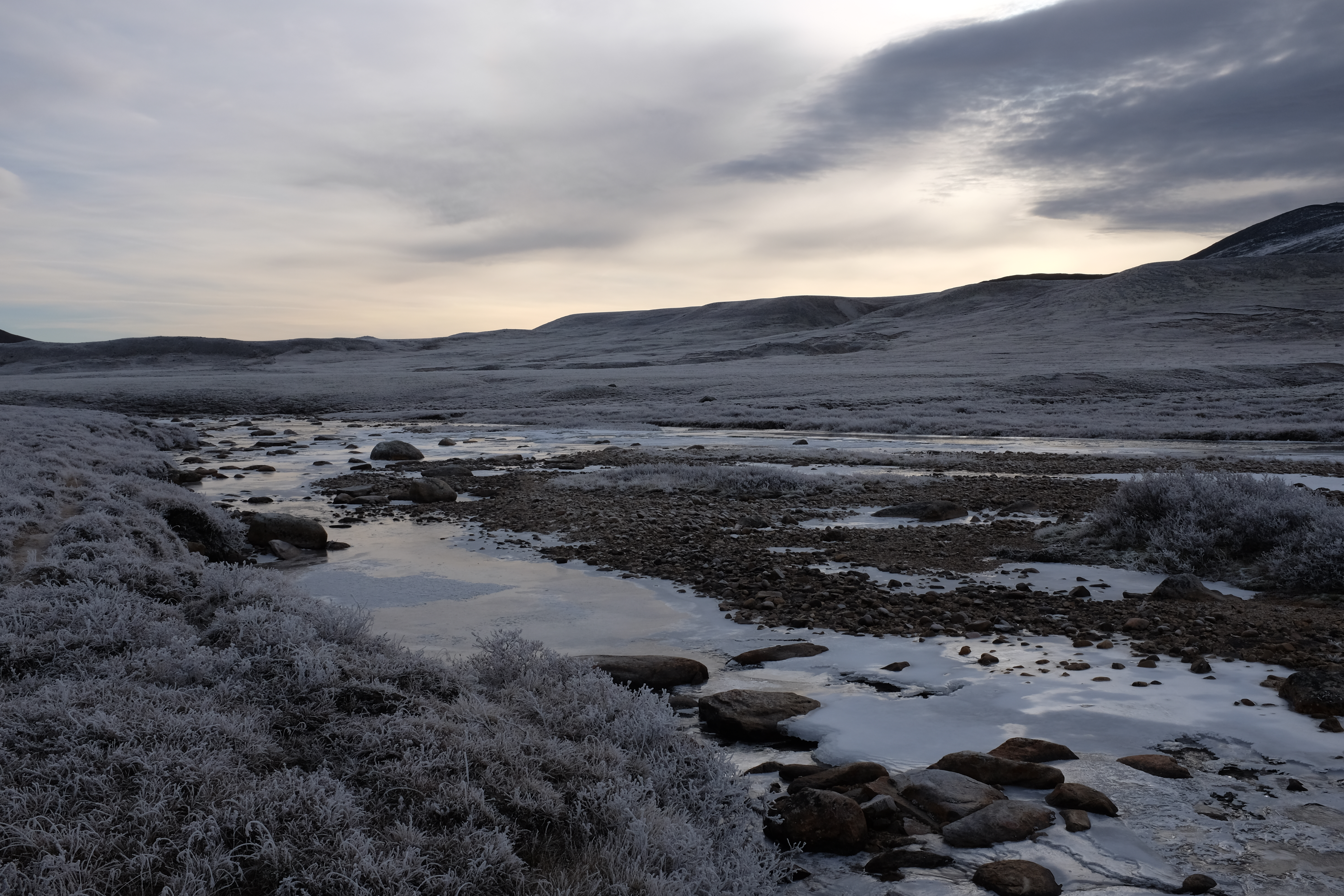 Dovrefjell-Sunndalsfjella nasjonalpark is part of the highland plateau between Oppland and Sør-Trøndelag counties. Steep mountains and hard rocky mountains in the west. More rounded mountains and calcareous bedrock in the east. Rich plant life, more demanding and rare species. Part of Europe's last almost intact high-mountain ecosystem with wildlife, herb and mountain reefs in coexistence. Muskox reintroduced. The mountain range is a national symbol. Source: Norwegian Environment Agency.